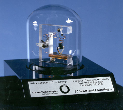 In 1997 Lucent Technologies created this replica to commemorate the 50th anniversary of the invention of the point-contact transistor at Bell Labs in December 1947.